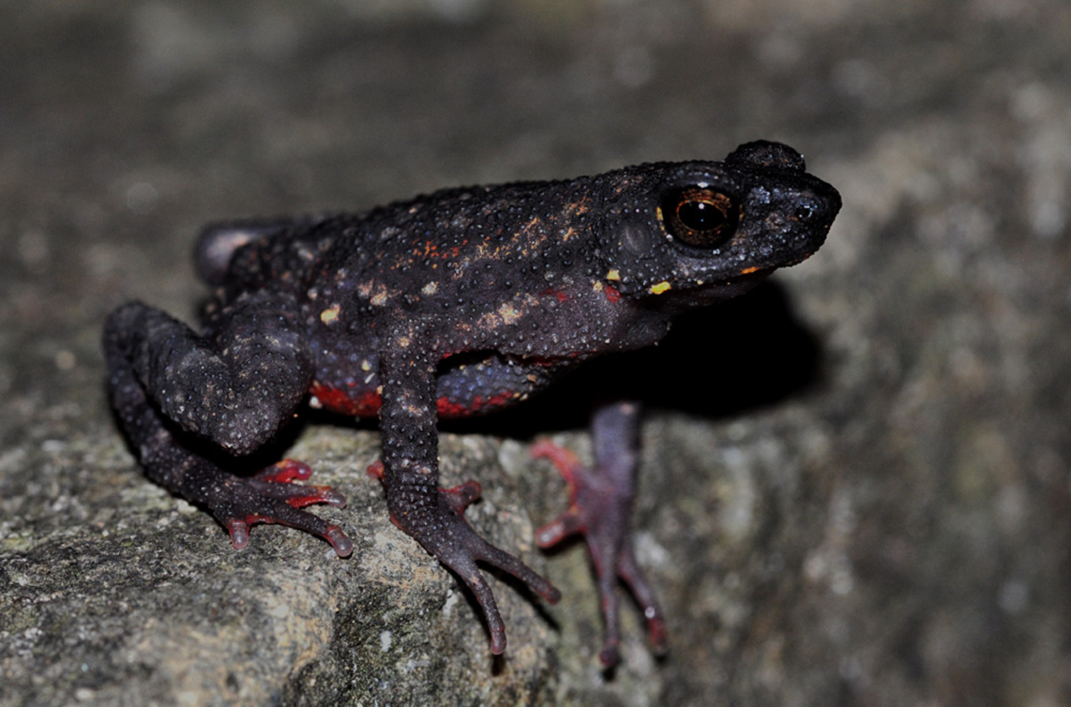 The undersides of this frog are bright crimson red with yellow spots which supposedly play a vital role in 'unken' reflex to thwart off predators